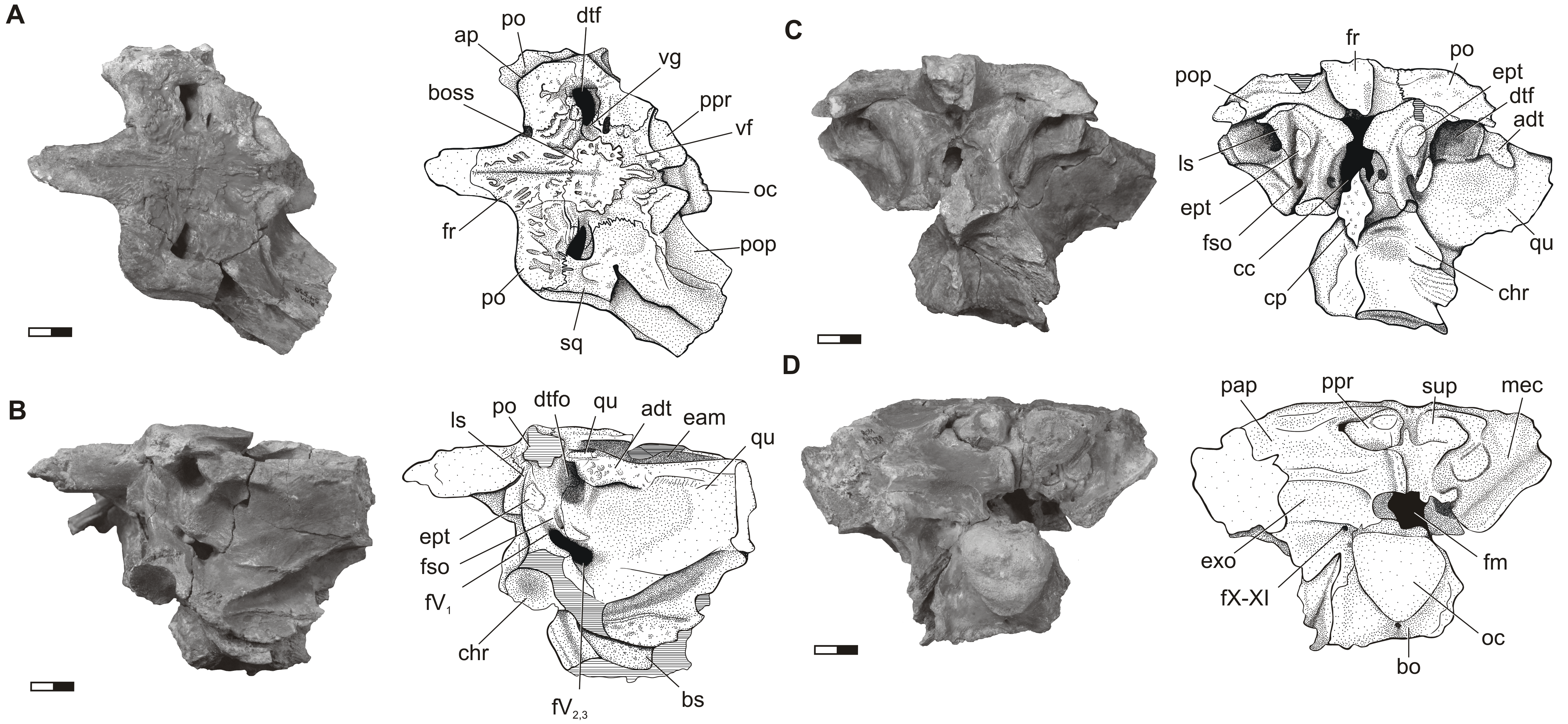 Photographs of the braincase and skull roof of Aegisuchus witmeri from "A New Eusuchian Crocodyliform with Novel Cranial Integument and Its Significance for the Origin and Evolution of Crocodylia" by Casey M. Holliday and Nicholas M. Gardner